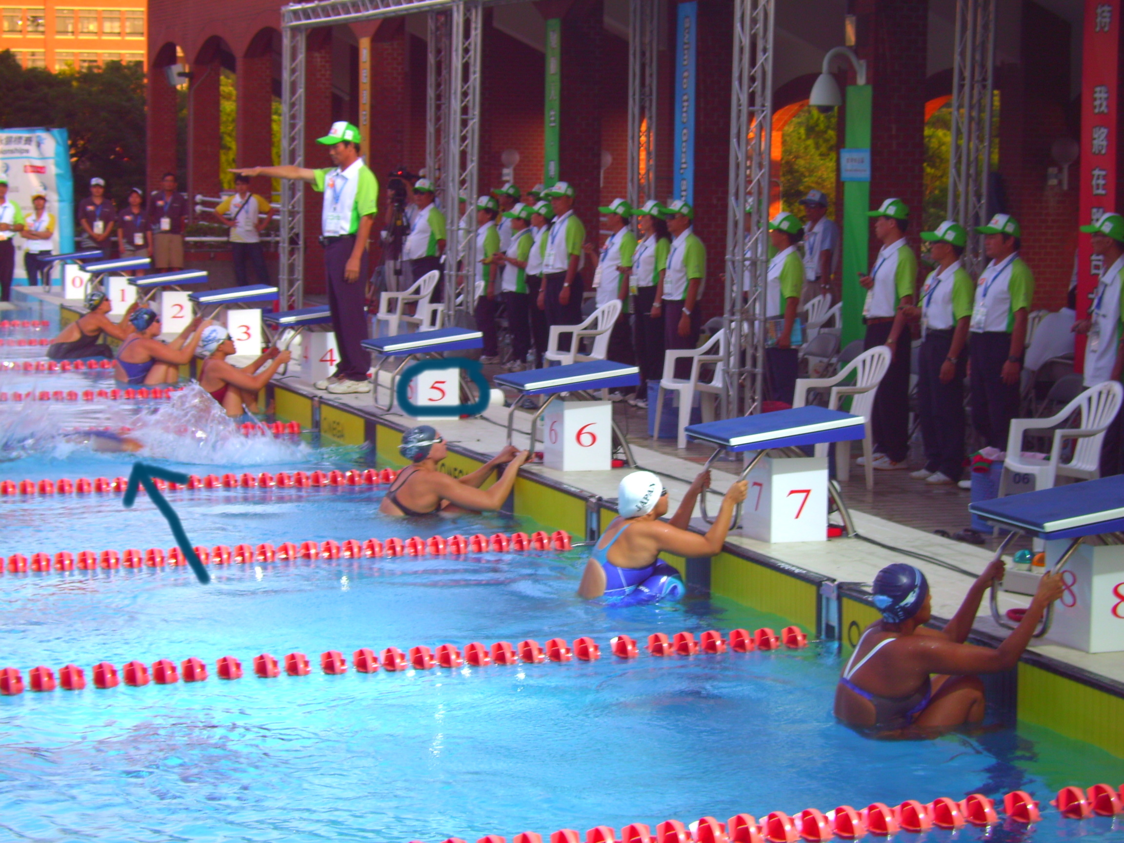 2007 World Deaf Swimming Championships: Women 200m Backstroke Final, another failed and controversy starting.